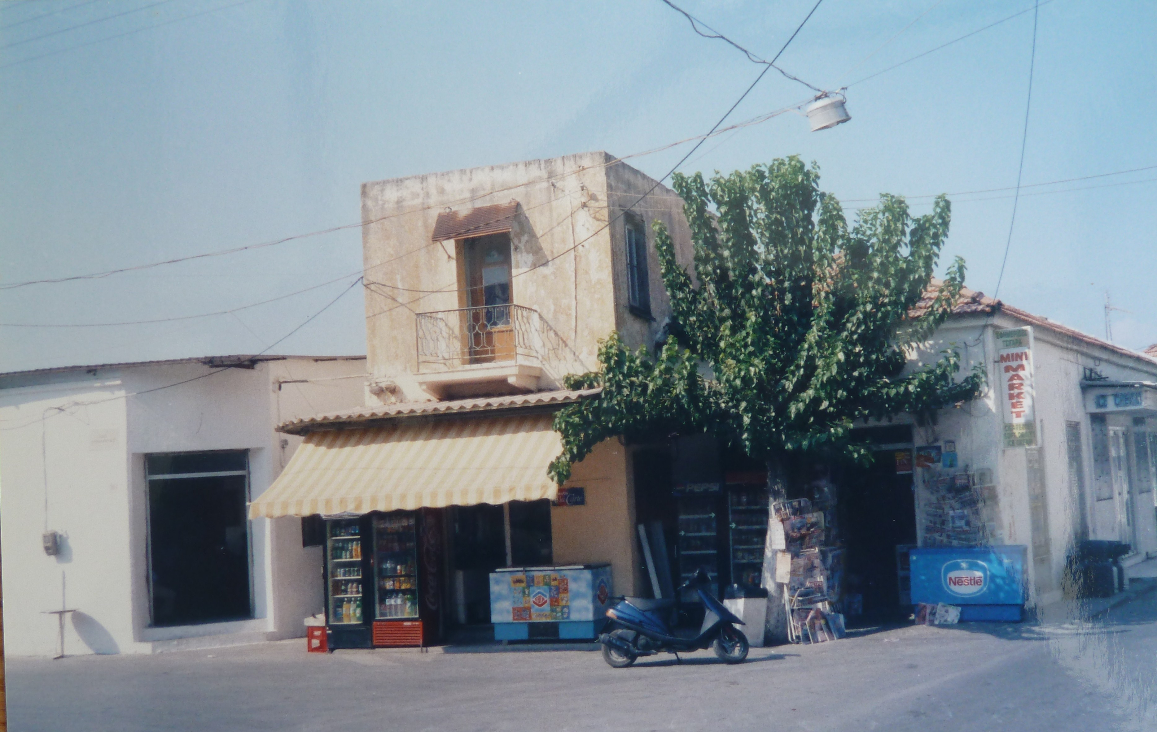 Pastida, Rhodes, Greece 2004